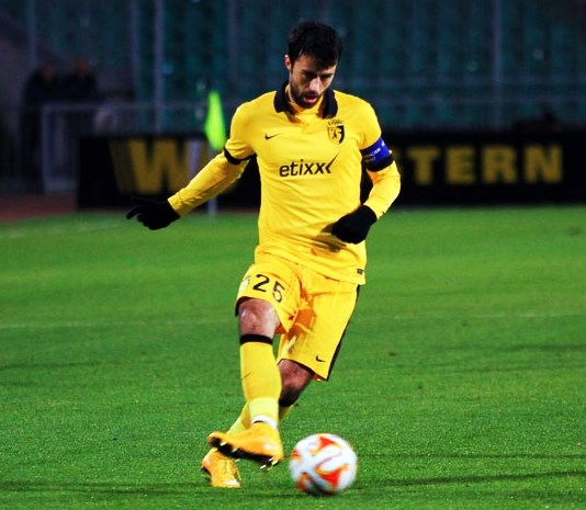 Marko Baša